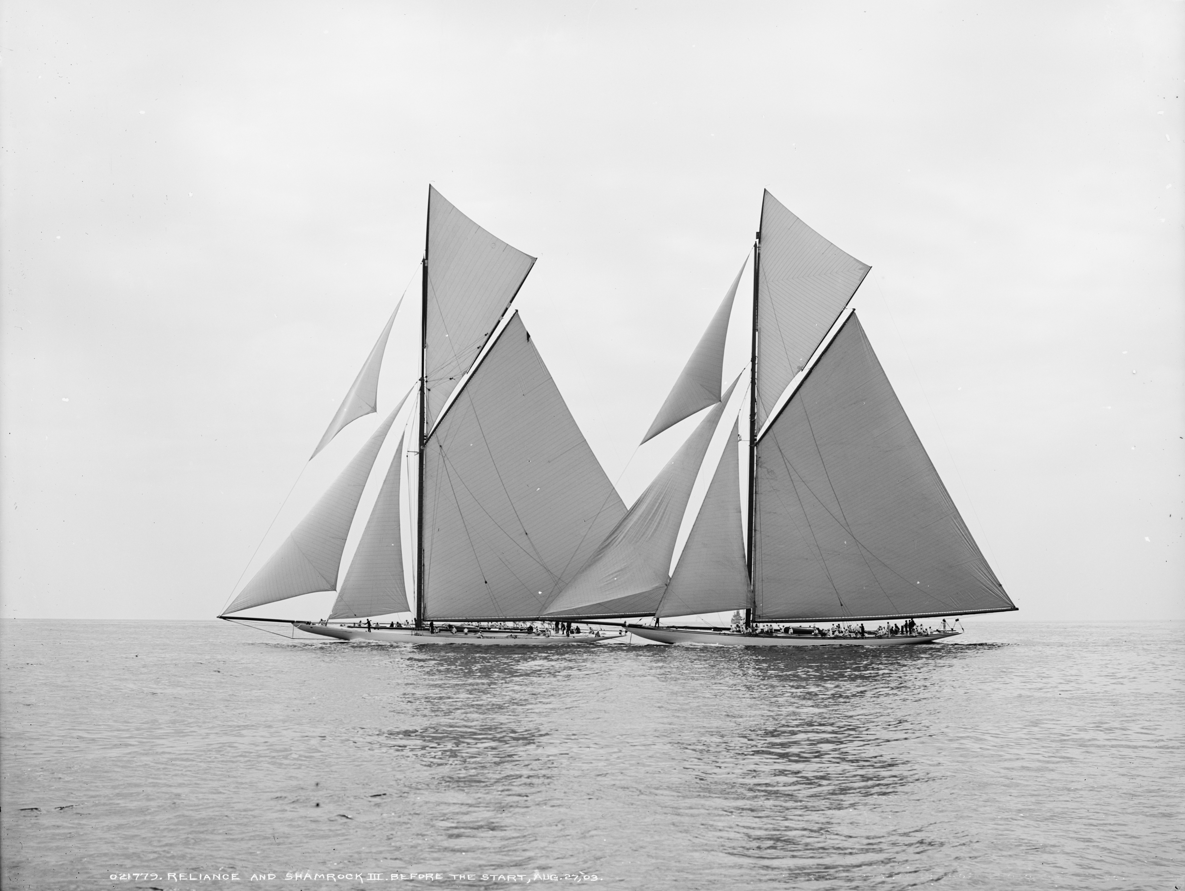 Reliance & Shamrock III dueling at the start in the 1903 America's Cup Race